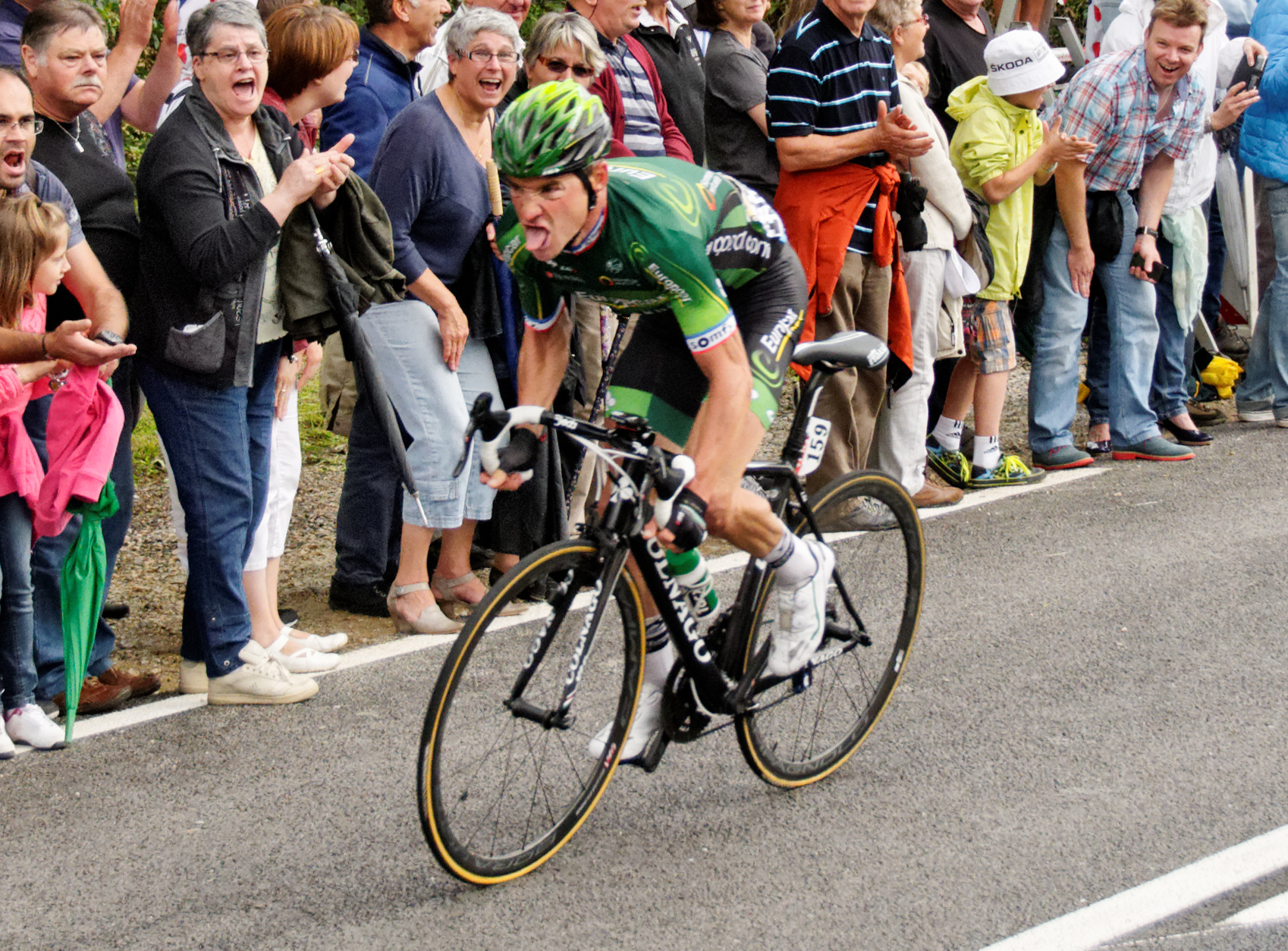 Personality rights warningAlthough this work is freely licensed or in the public domain, the person(s) shown may have rights that legally restrict certain re-uses unless those depicted consent to such uses. In these cases, a model release or other evidence of consent could protect you from infringement claims.